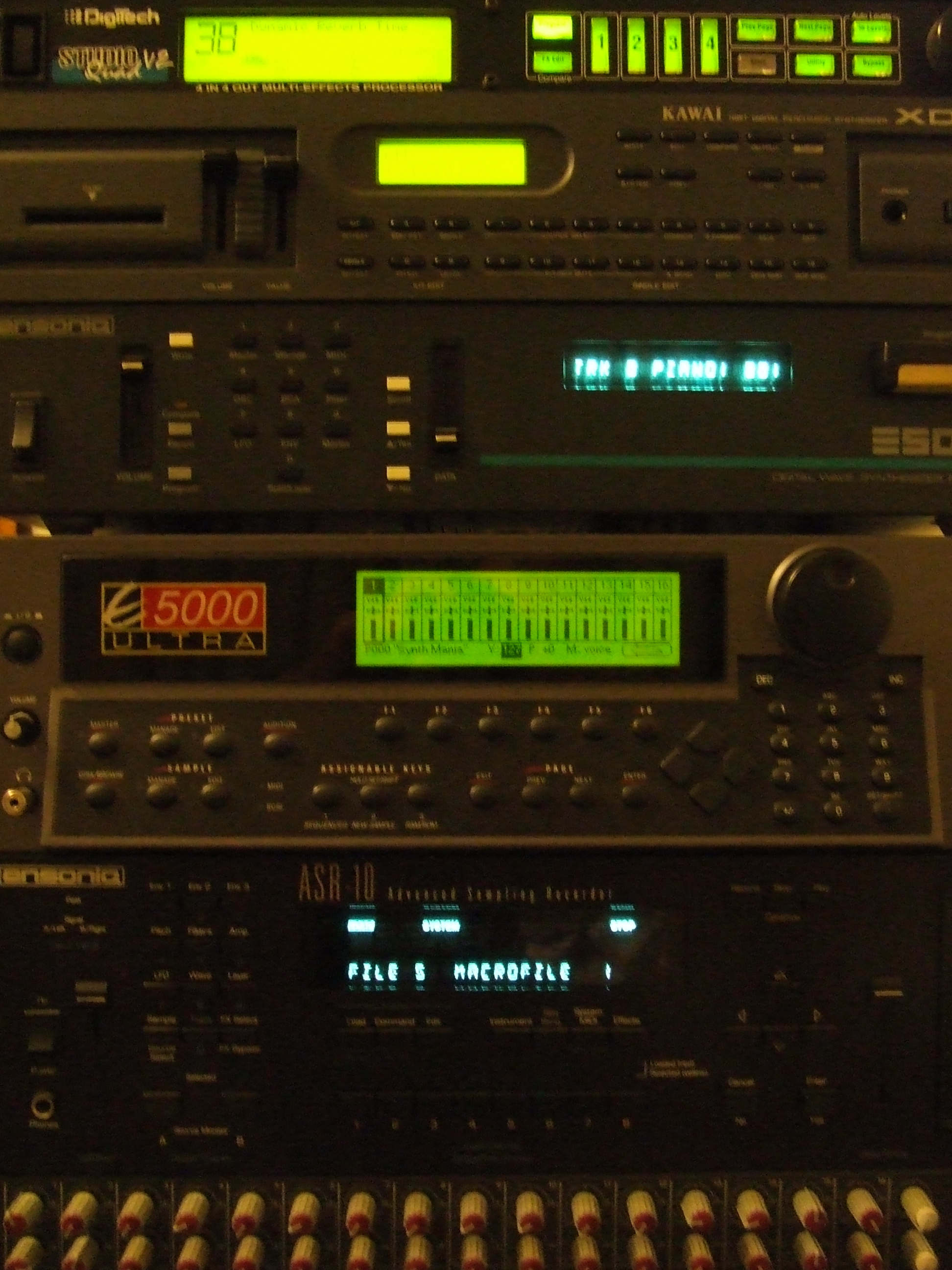 I've unpacked the essential bits of my musical gear. Knowledgeable viewers might be scratching their heads and wondering why I haven't moved to Ableton Live. This is a fair question, and one to which I have no satisfactory answer. From top to bottom: Digitech Studio Quad V2 Kawai XD 5 Ensoniq ESQ M EMU E5000 Ultra Ensoniq ASR 10R Mackie LM 3204